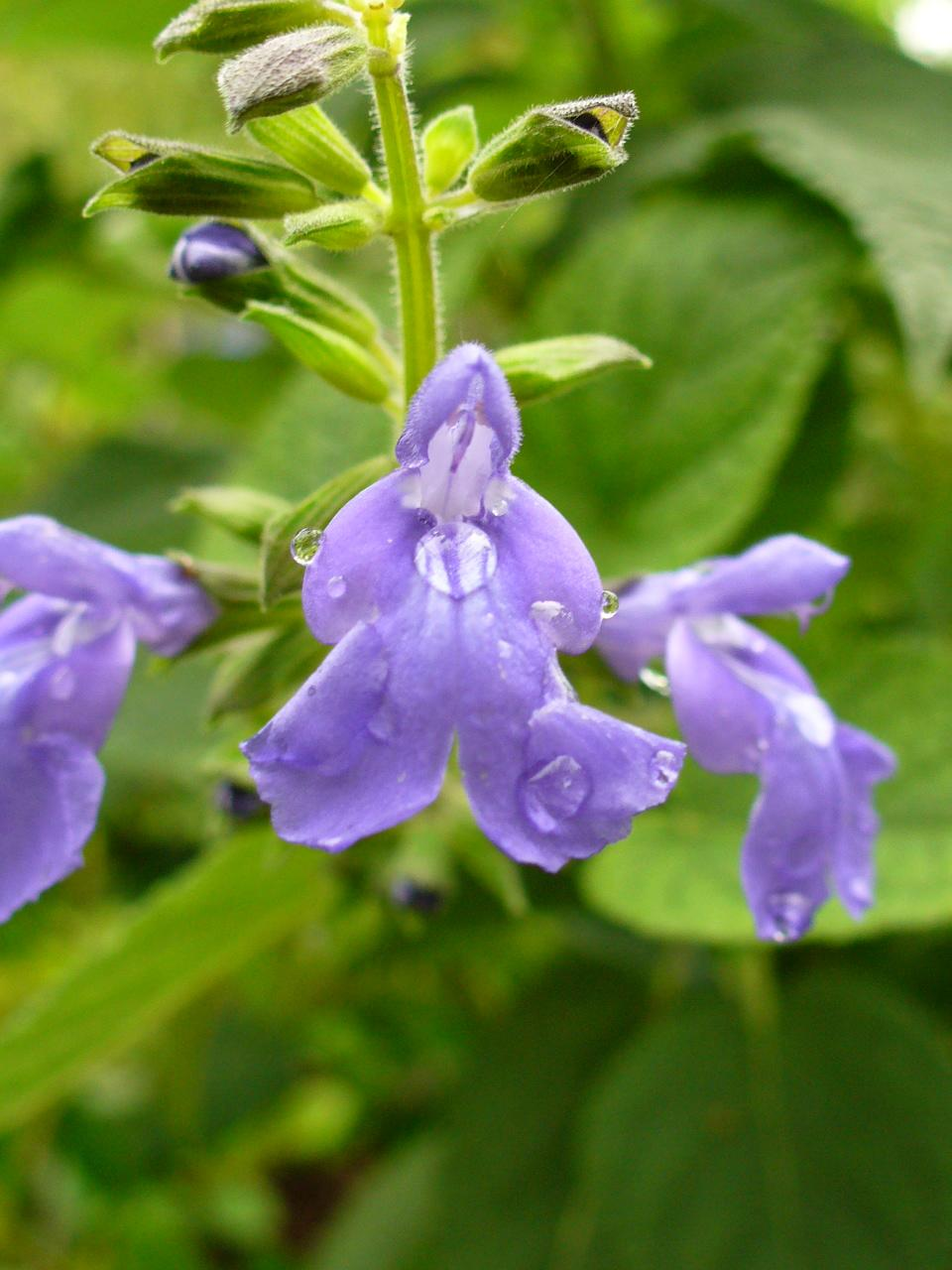 South Miami, Florida